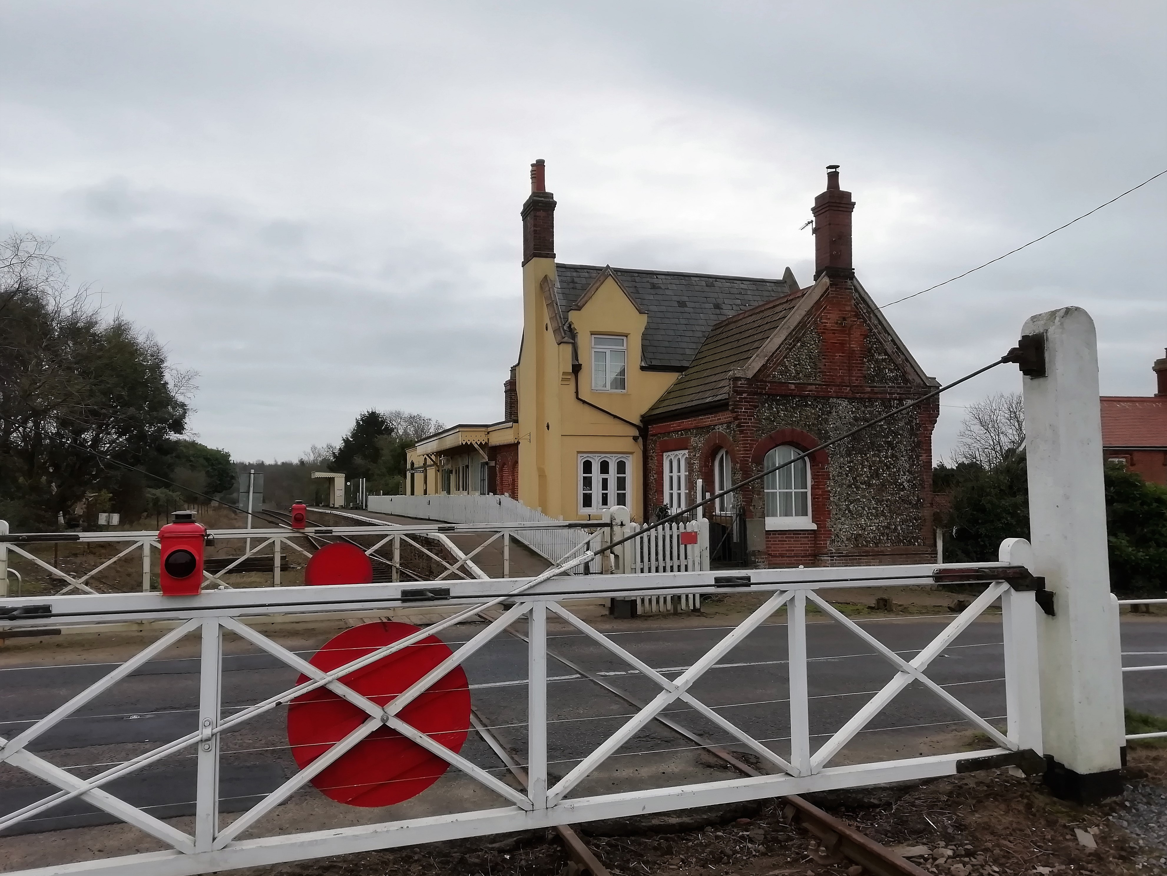 The station, viewed from the new staff car park, December 2018